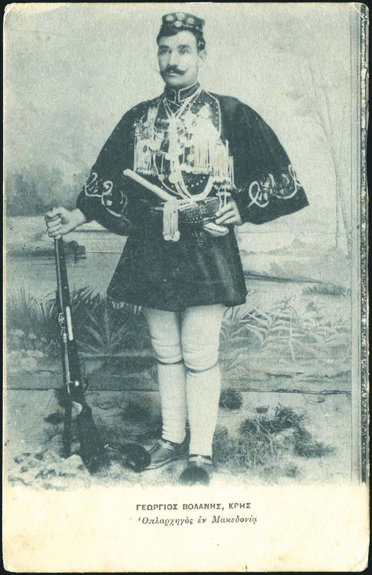 Portrait of greek revolutonary Georgios Volanis